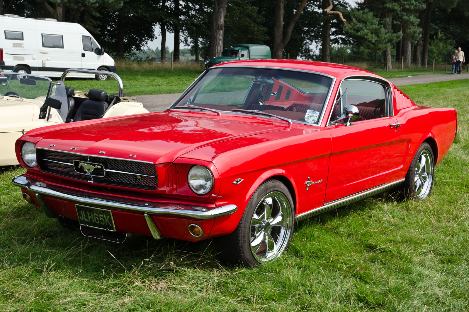 Capesthorne Hall Classic Car Show 25/08/2013